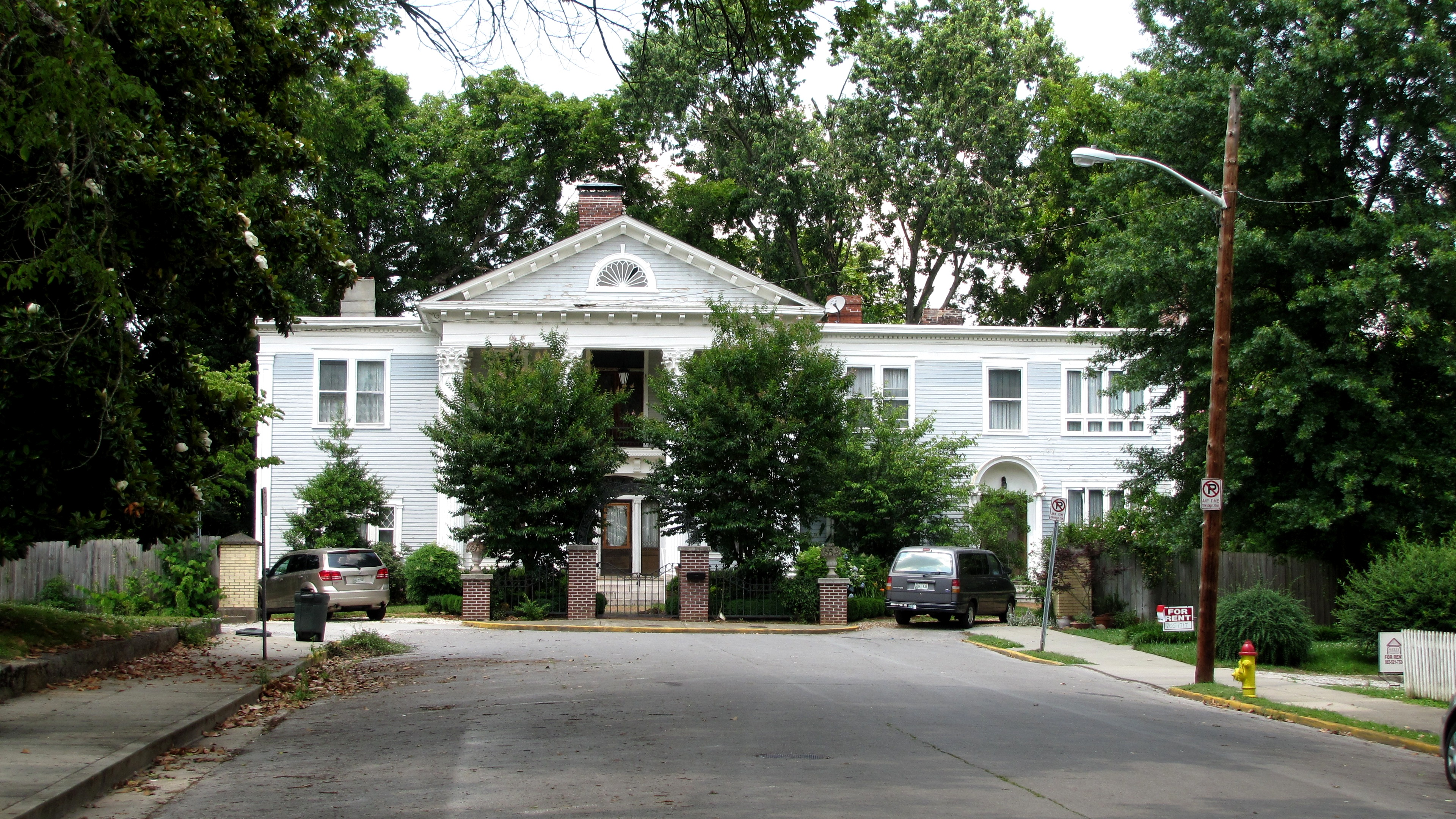 The James B. Dunn Mansion (1424 Armstrong Ave.) in Knoxville, Tennessee, USA. Built in 1905, this house is now listed as a contributing property in the NRHP-listed Old North Knoxville Historic District.